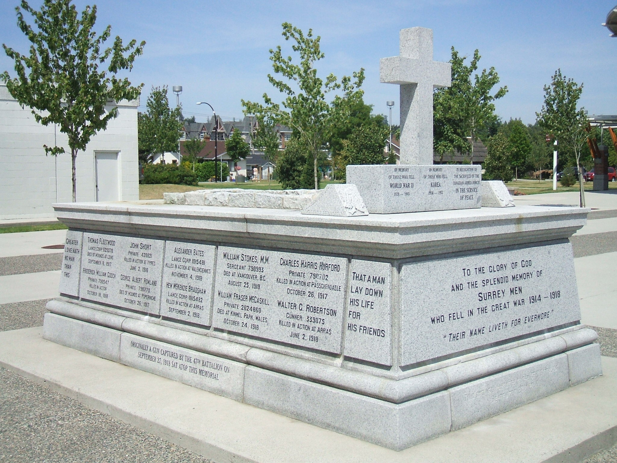 The City of Surrey's cenotaph for Canada's war veterans located in Cloverdale, BC, Canada. This granite monument was originally erected on May 21, 1921 in memory of World War One veterans and contains the names of certain local Surrey soldiers who perished in various battles of this war on its sides. It was enlarged and modernised with two newer dedications to the veterans of World War Two and the Korean War and is the site for annual Remembrance day ceremonies in Surrey. Two German WWI guns were originally placed on top of the structure but there were removed and melted down when the Second World War began.